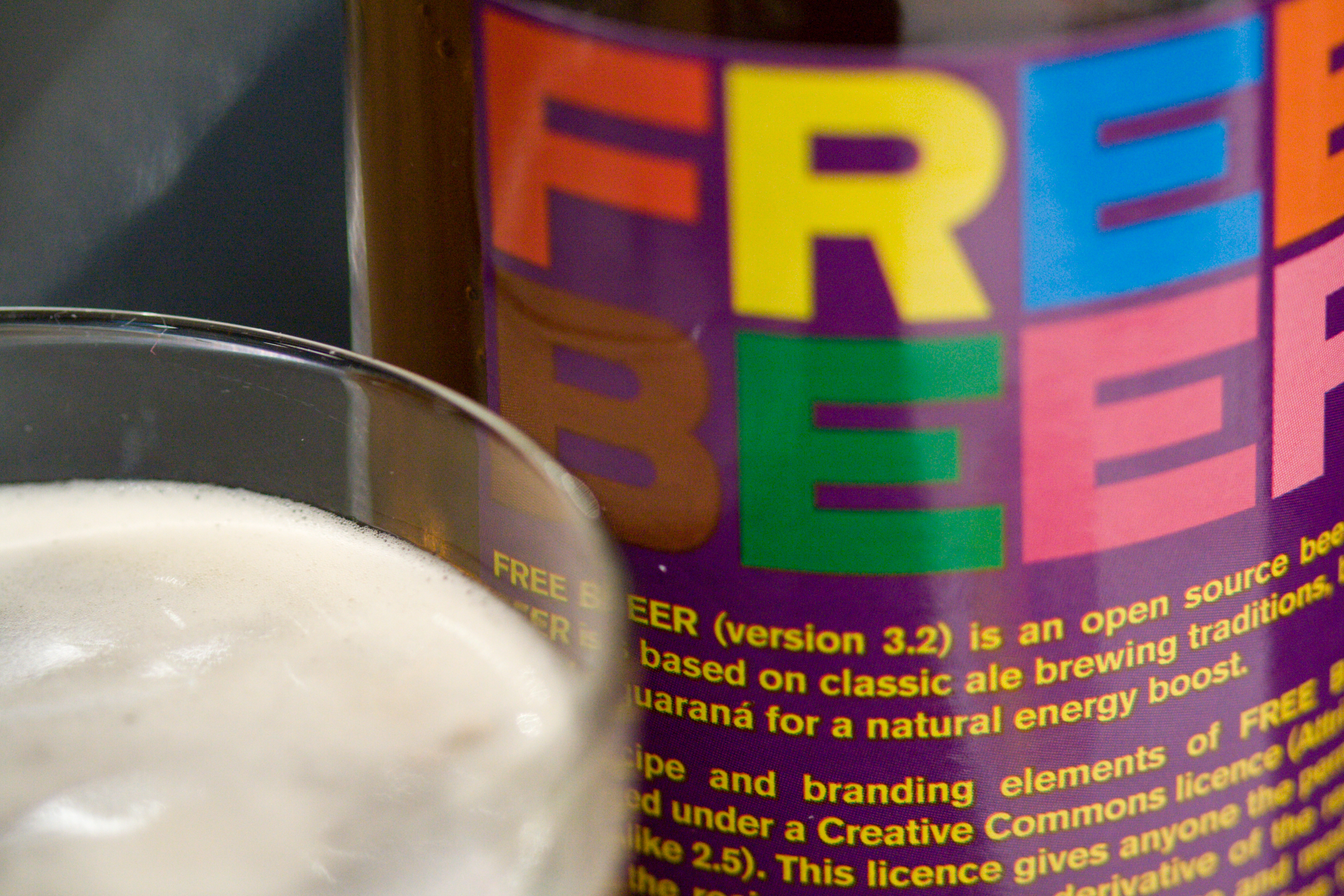 "Free Beer" The recipe is released under a Creative Commons license at Breweries are welcome to commercialize it if they so desire, and the St. Austell brewery in Cornwall sells it on-line, and through venues such as the Tate.